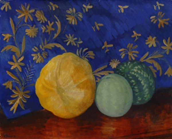 Still Life 46,3 x 56,6 Collection of Radischevskiy Museum